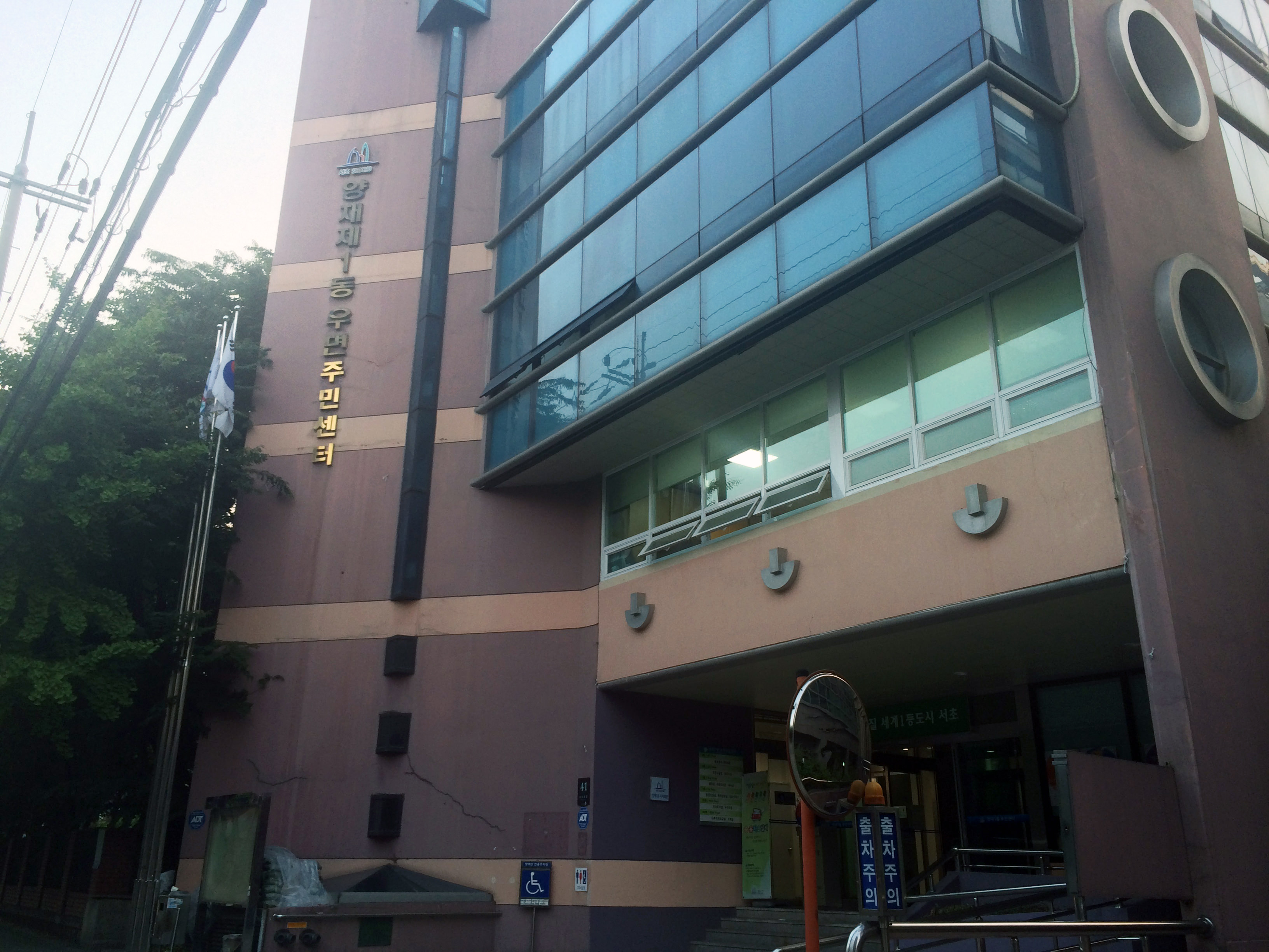 Yangjae 1-dong Comunity Service Center (Seocho-gu)